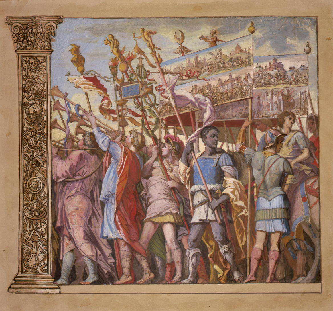 Triunph(us) Caesaris (The triumph of Julius Caesar), plate 1. Plate 1 from series showing people in triumphal procession of Julius Caesar. After the painting by Andrea Mantegna. Chiaroscuro woodcut with gouache.